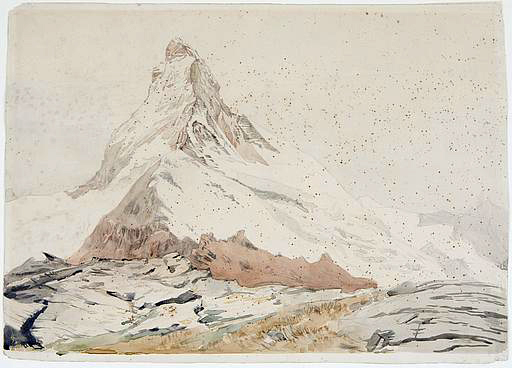 The Matterhorn